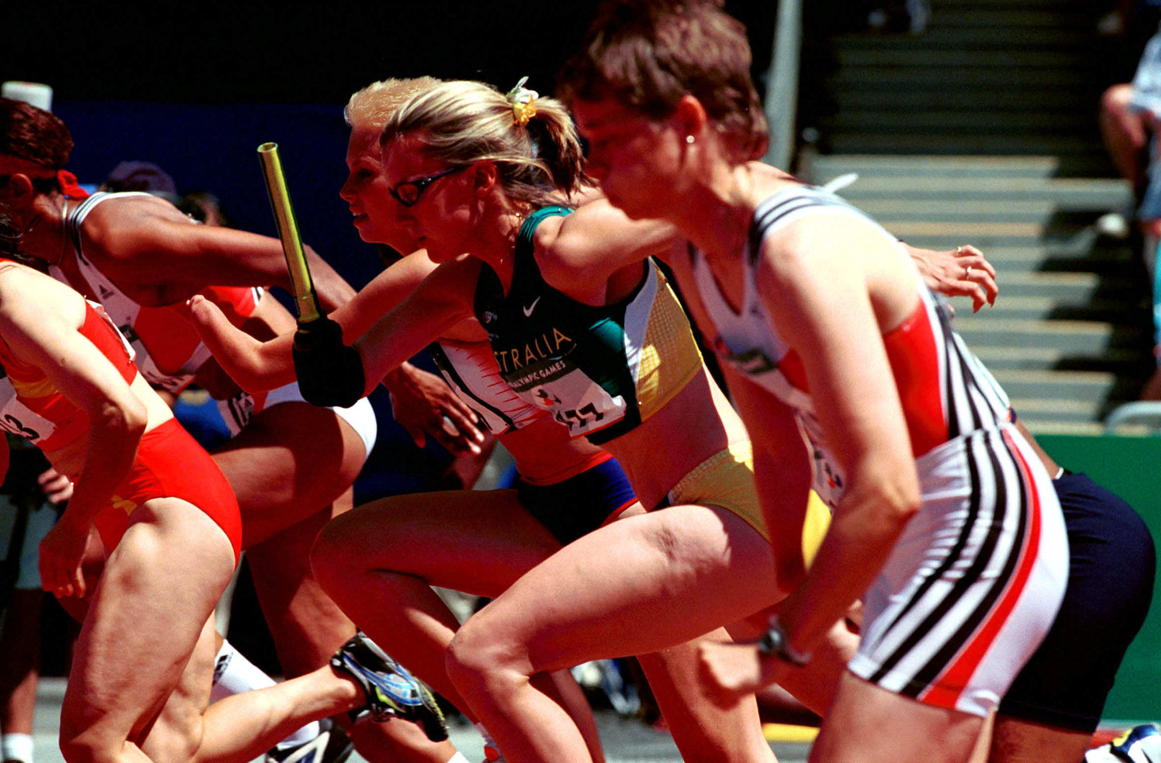 Action shot of Australian athlete Meaghan Starr (shown centre) during track competition at the 2000 Sydney Paralympic Games, Day 07